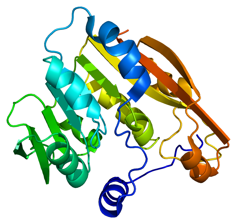 Structure of the TPMT protein. Based on PyMOL rendering of PDB 2bzg.